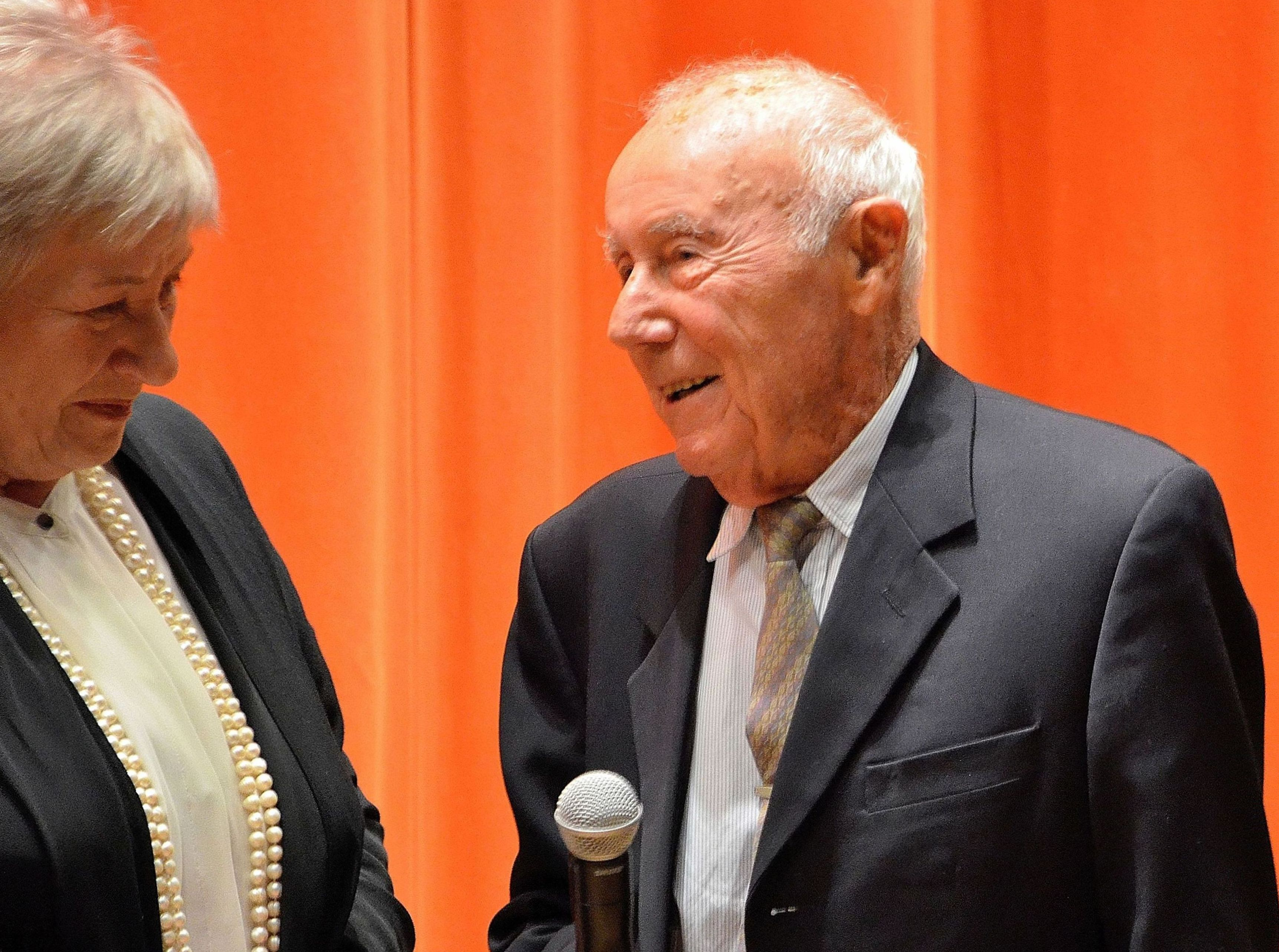 Simcha Rotem and Agnieszka Arnold